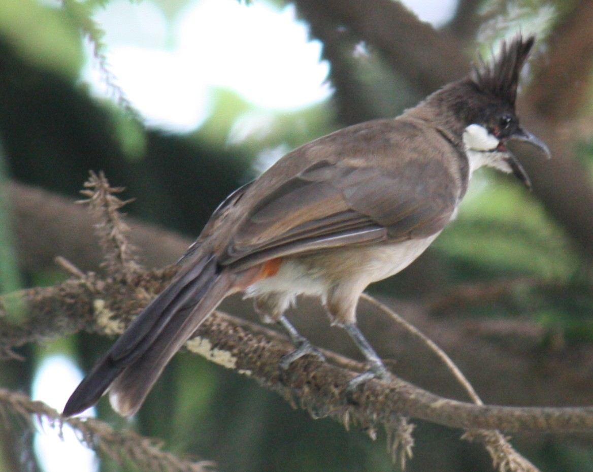 A bird in Shenzhen, China